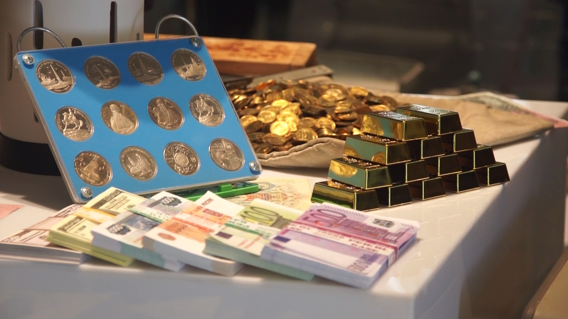 Updated exposition at the museum (modern Ukrainian paper money, coins & souvenir bars)